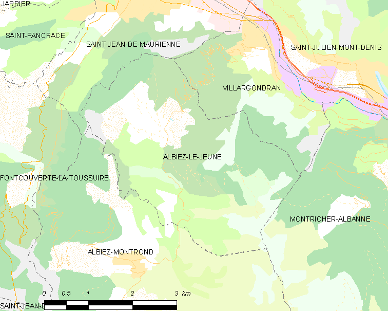 Map of French municipality